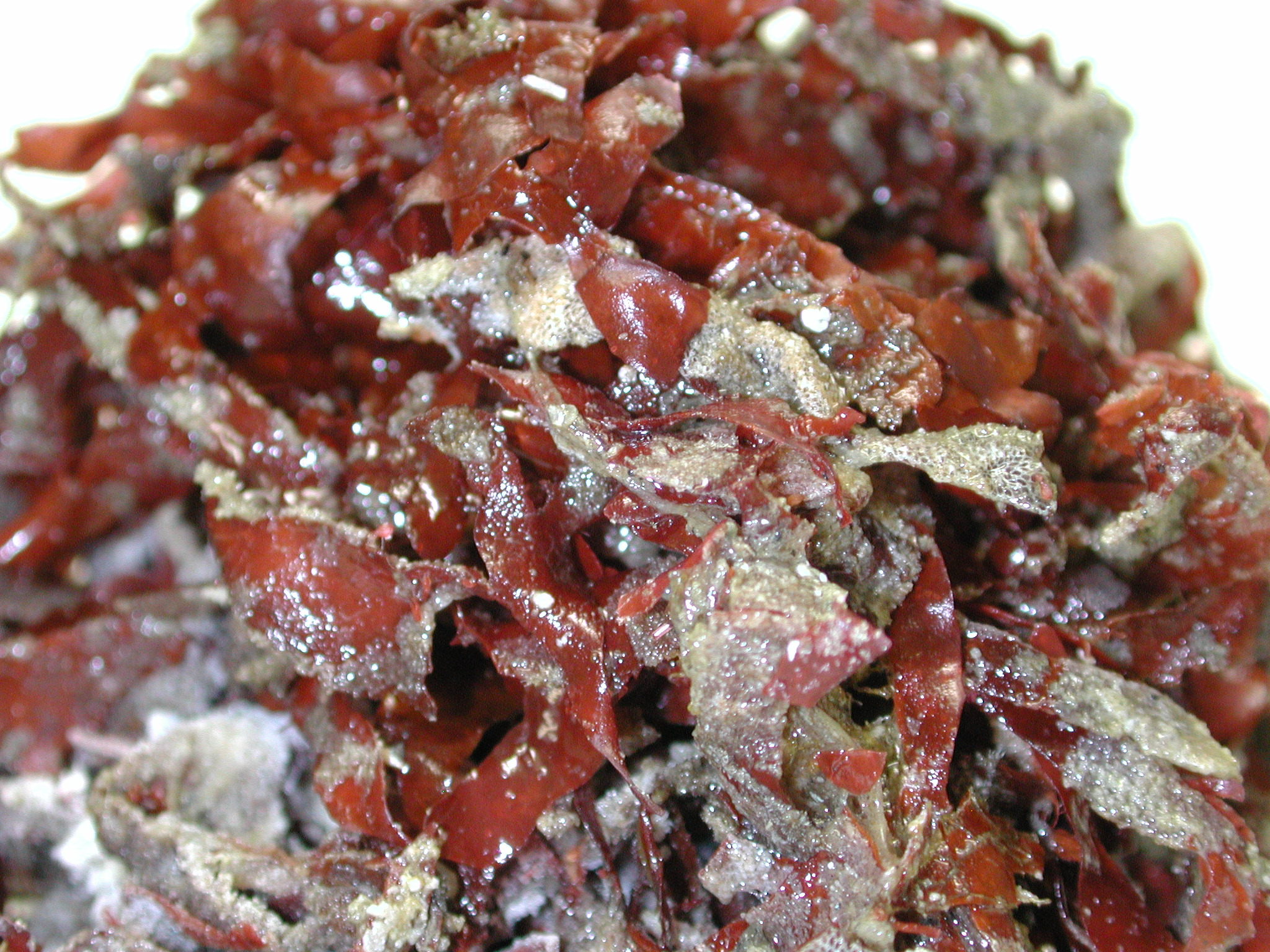 Frozen sample of Phyllophora antarctica (red alga) with serpulidae on it